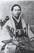 The future japanese admiral and politican Enomoto Takeaki, aged around 19.